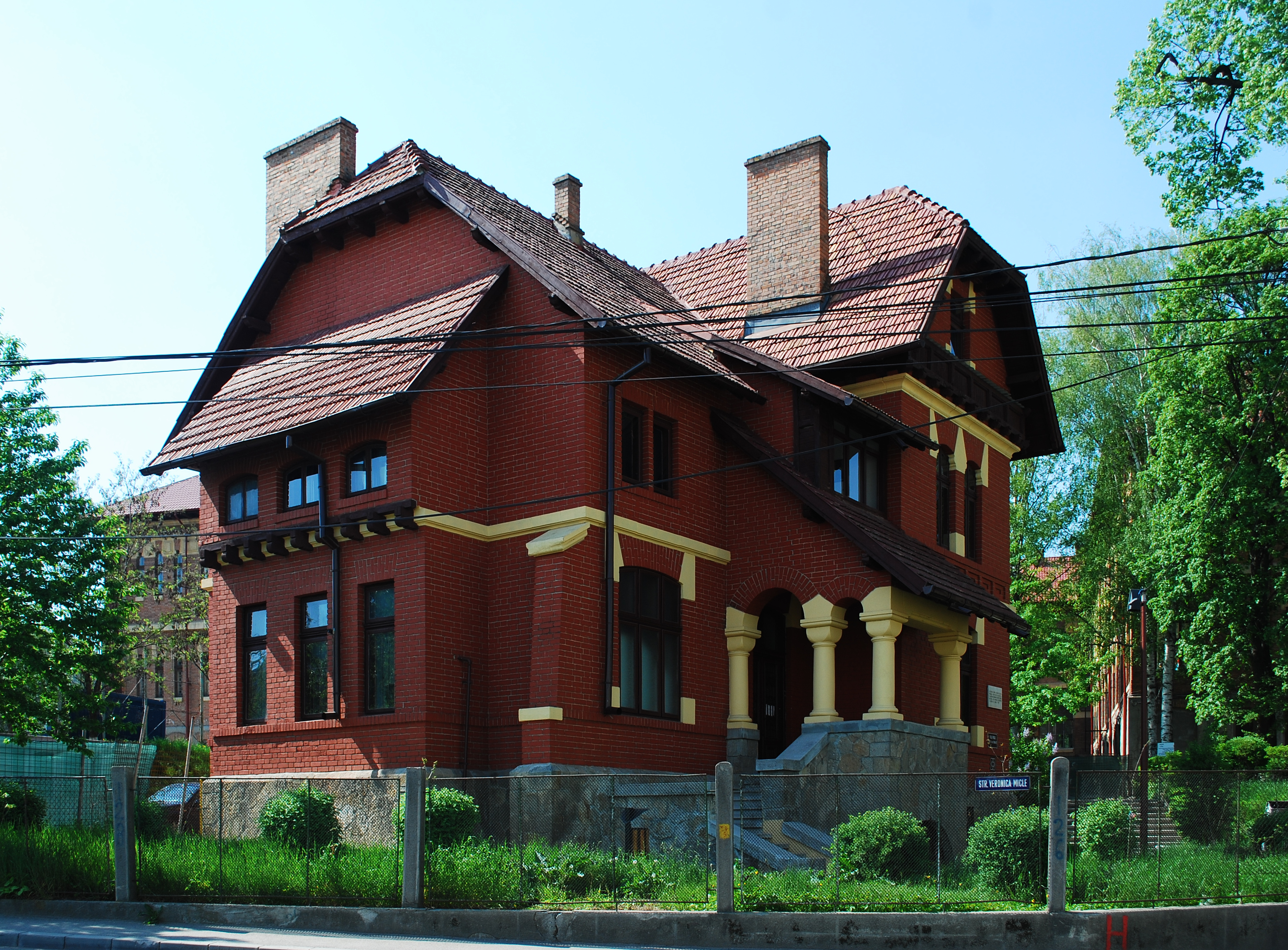 Hogas villa in Roman, Neamț County, RomaniaRomână: Vila Hogaș din Roman, județul Neamț, România 02